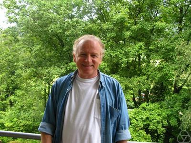 Eitan Tadmor, Oberwolfach 2010